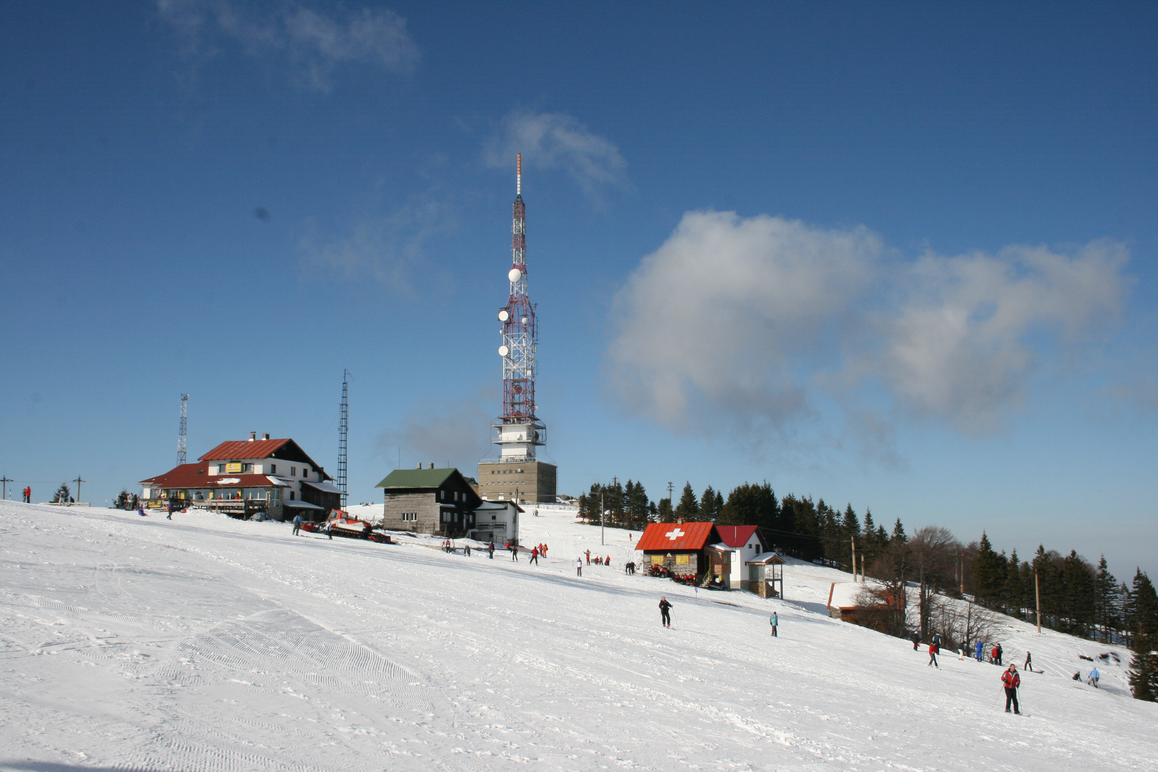 View from a ski resort in the Semenic Mountains near Reşiţa, Romania.